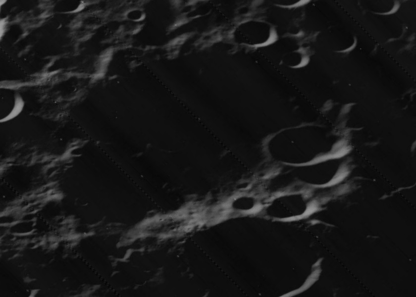 Oblique view of Bragg, on the far side of the moon, facing west.